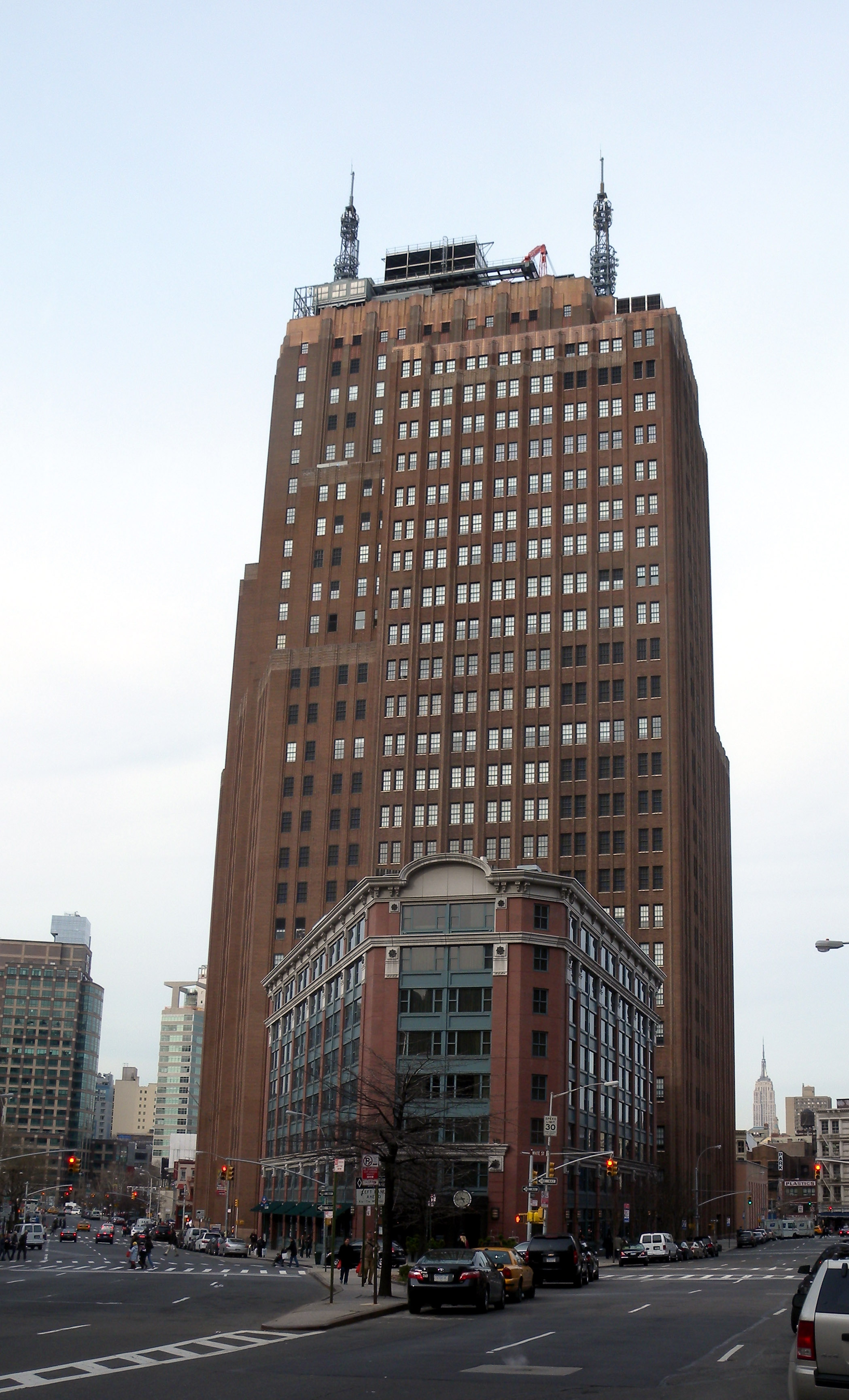 Looking north along 6th Avenue (left) and Church Street at 32 A/A on a cloudy afternoon. See File:LD4 ATT 32AA jeh.JPG for west side of building.